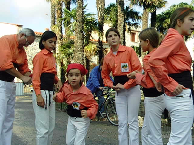 castellers de l'Albera, kids, human towers